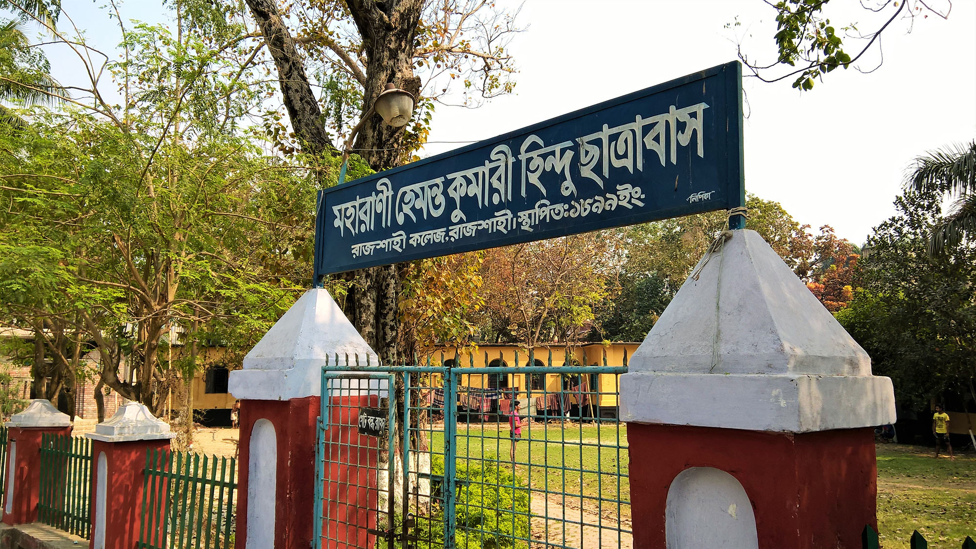 Rajshahi College is situated in the city center, adjacent to Rajshahi Collegiate School and is very near the famous Barendra Museum. It is said to be the third oldest institutions of higher education in Bangladesh after Dhaka College and Chittagong College.